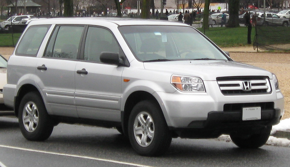 2006-2008 Honda Pilot photographed in Washington, D.C., USA.